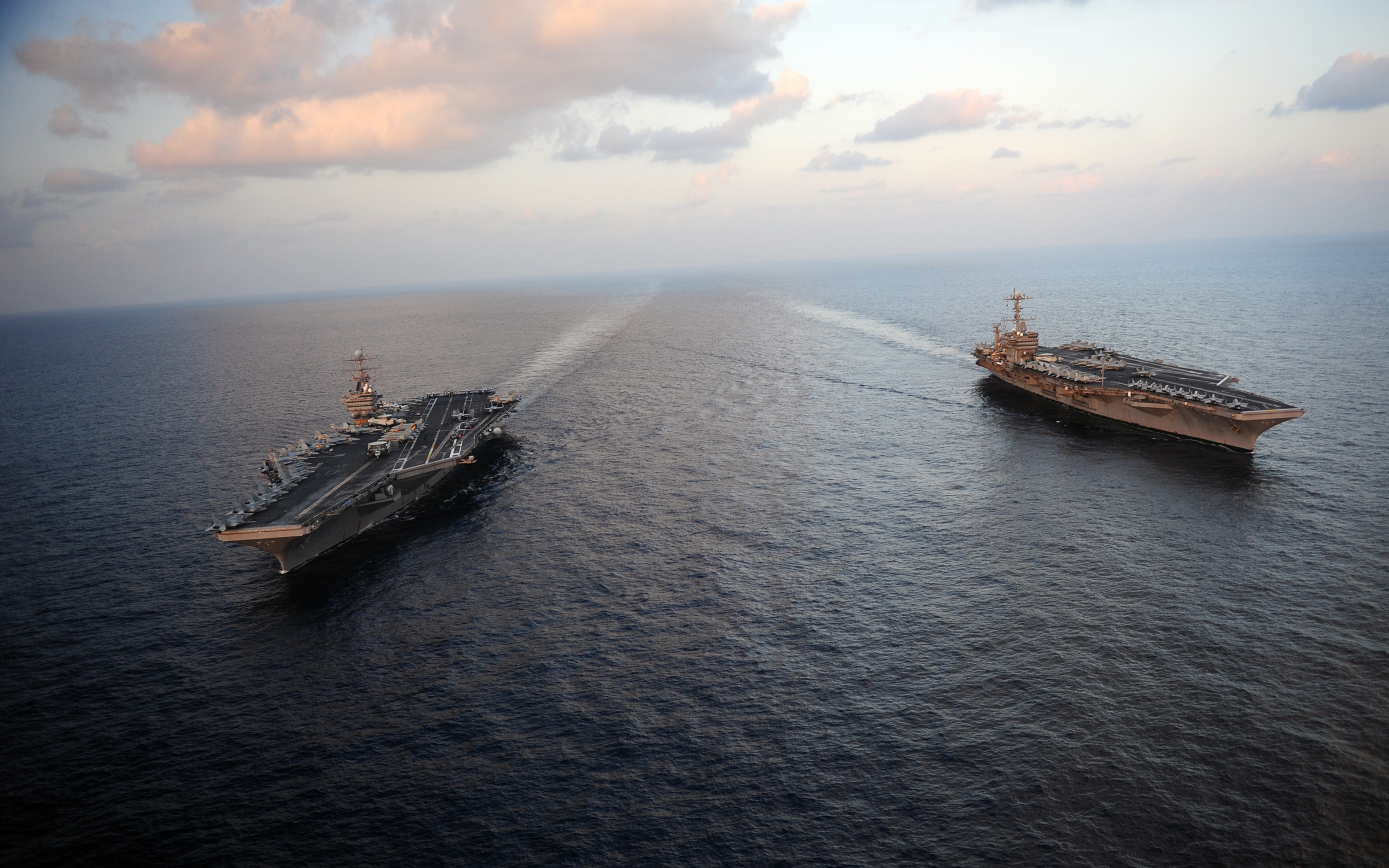 120119-N-YL945-045 ARABIAN SEA (Jan. 19, 2012) The Nimitz-class aircraft carriers USS Abraham Lincoln (CVN 72) and USS John C. Stennis (CVN 74) join for a turnover of responsibility in the Arabian Sea. Both ships are deployed to the U.S. 5th Fleet area of responsibility. (U.S. Navy photo by Mass Communication Specialist 2nd Class Colby K. Neal/Released)